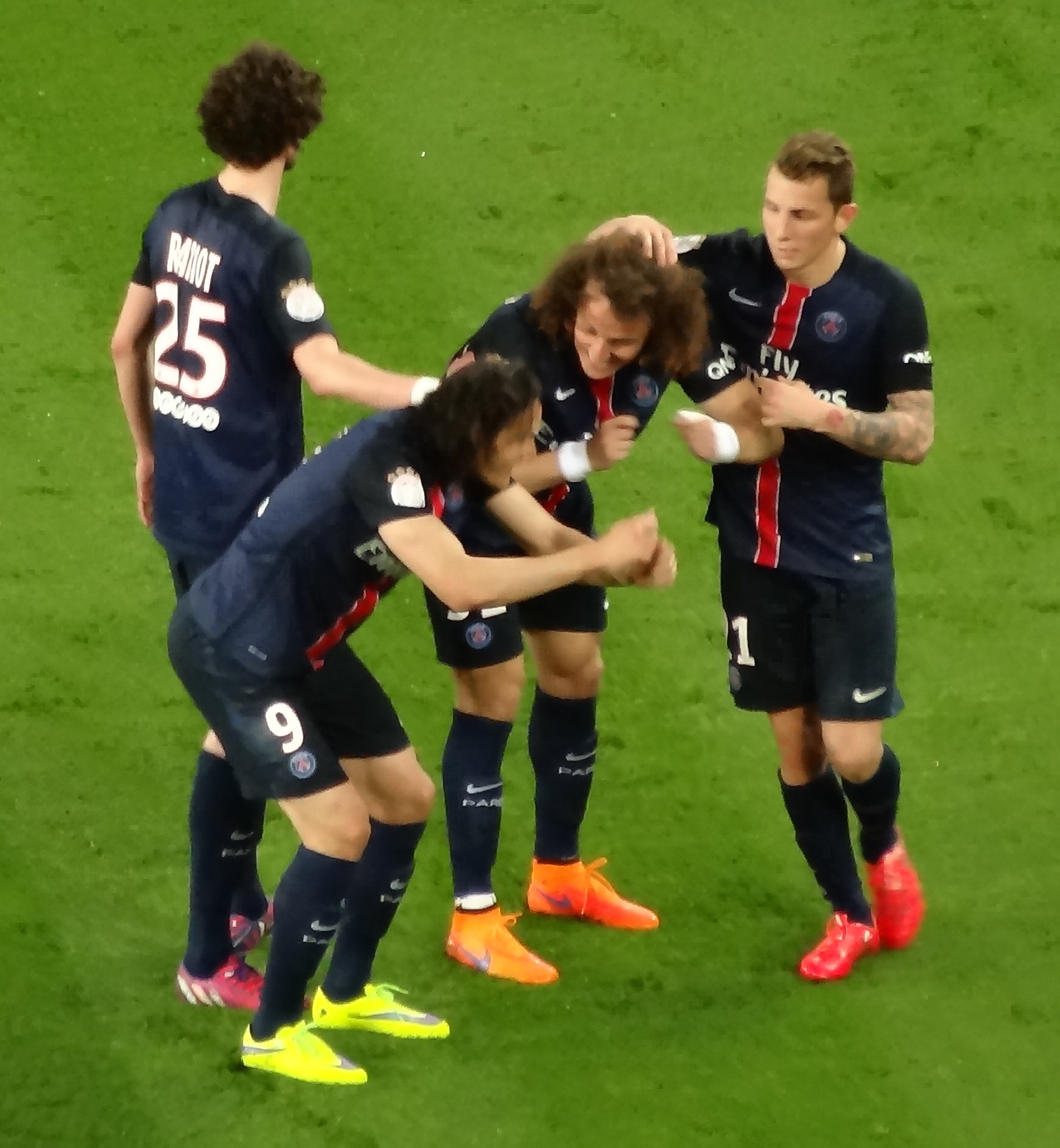 Cavani goal with David Luiz